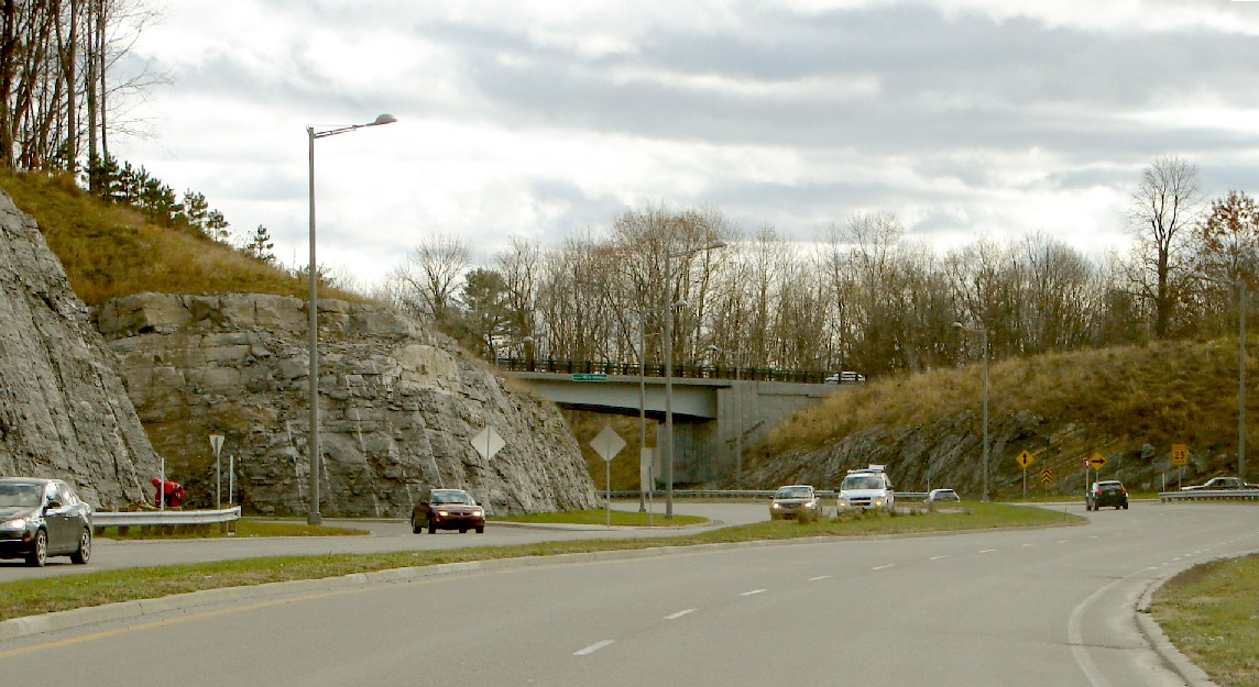 Boulevard des Allumettières at the Gatineau Park in Hull sector, Gatineau, Quebec, Canada